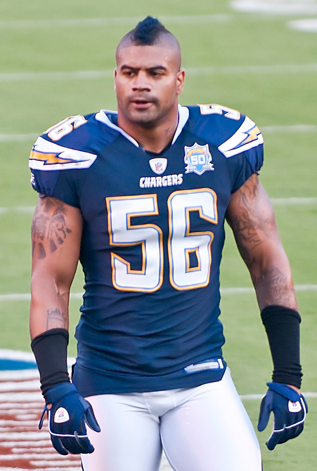 Shawne Merriman during the Chargers vs. 49ers preseason game on September 4, 2009.